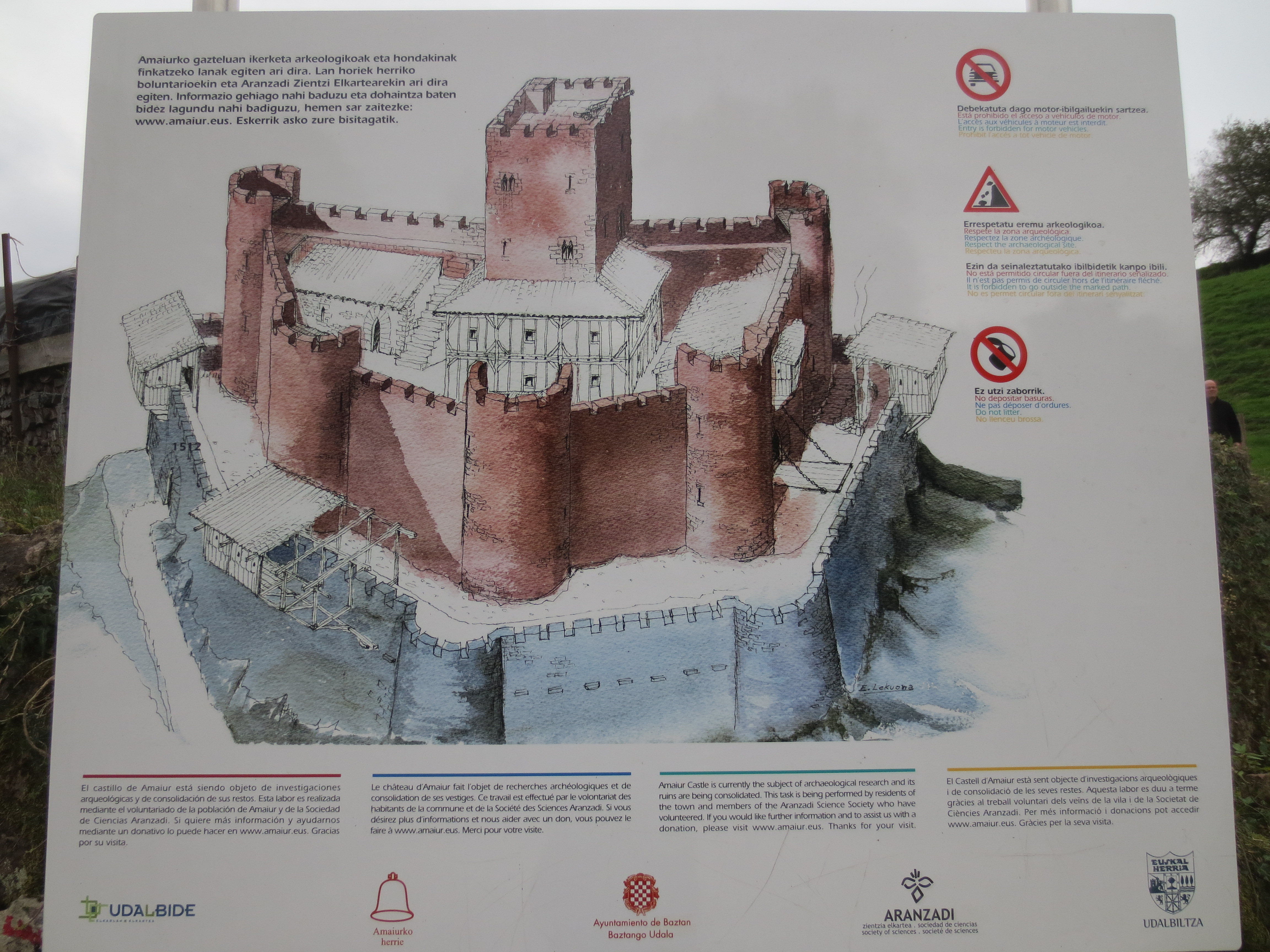 The Amaiur Castle prior to the invasion of Navarre (up to 1512)